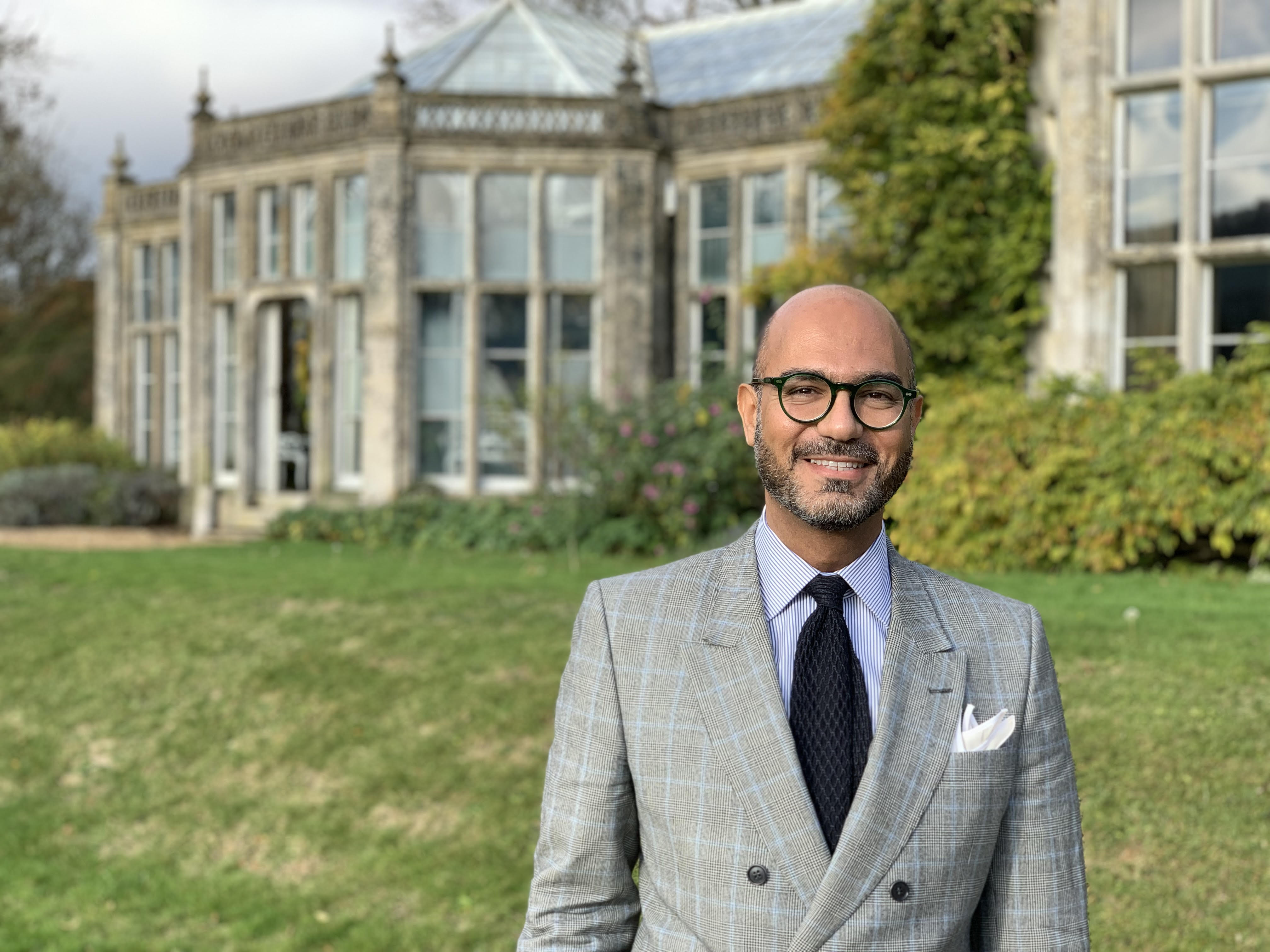 Mohammed Naciri 2018